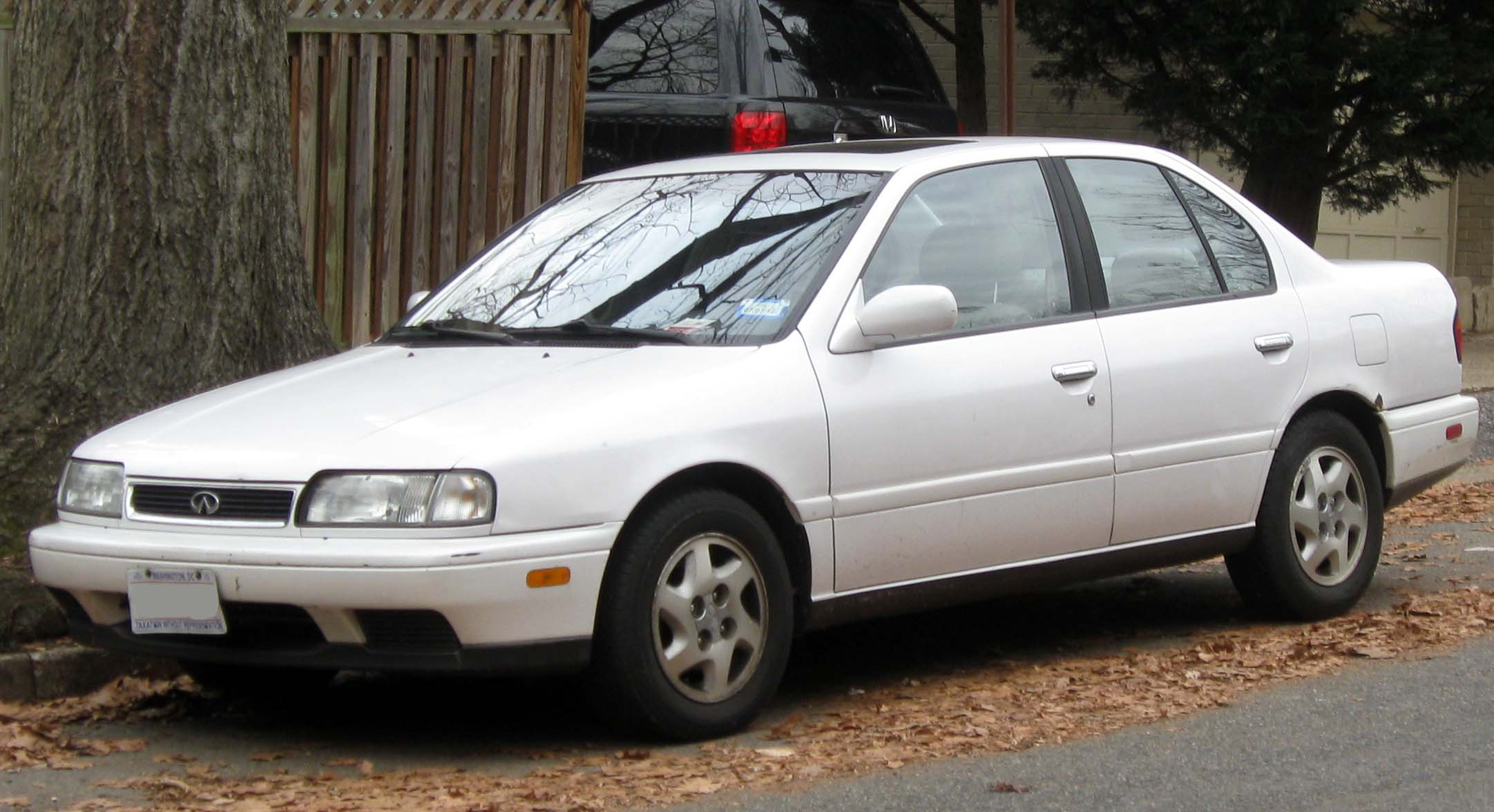 1994-1996 Infiniti G20 photographed in Washington, D.C., USA.